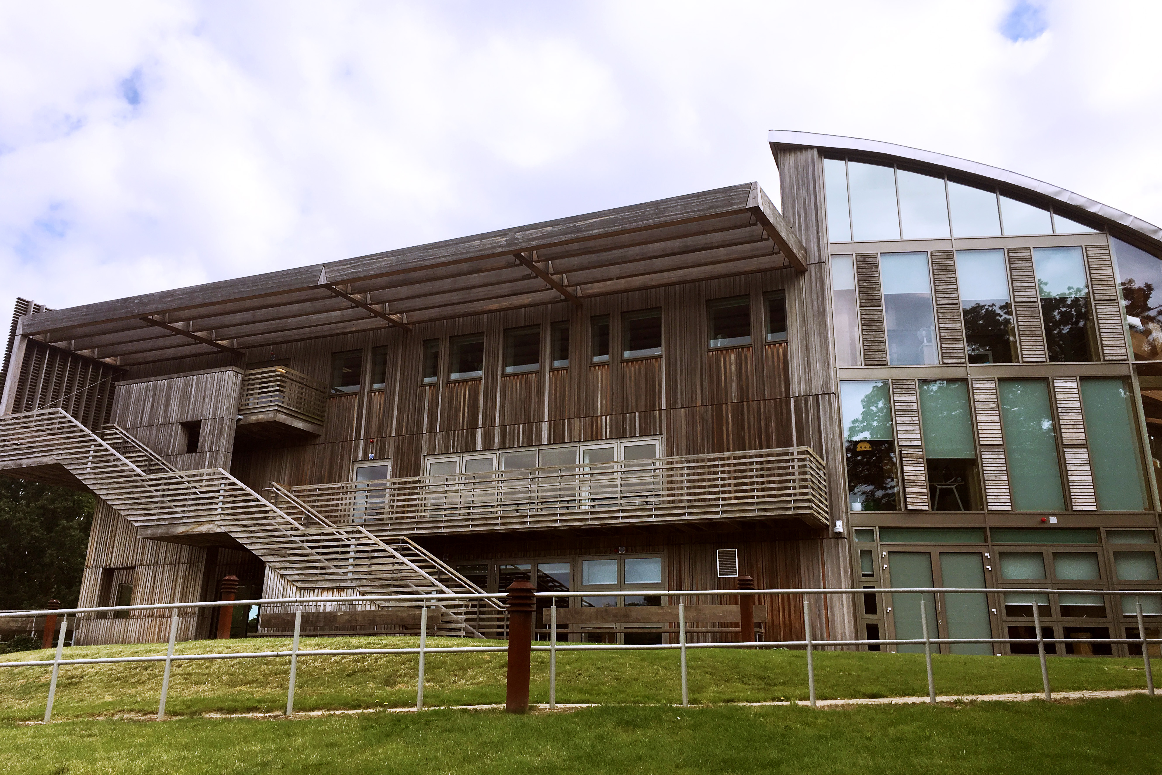 Essex Business School, Colchester Campus, University of Essex